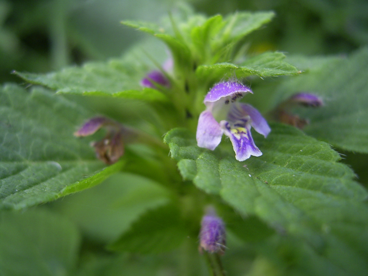 This photo shows a flower of Galeopsis bifida. I took the photo on July 1, 2004, on a location I can no longer remember.